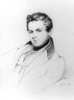 Camillo Benso, count of Cavour (1810-1861) young by William Brockedon